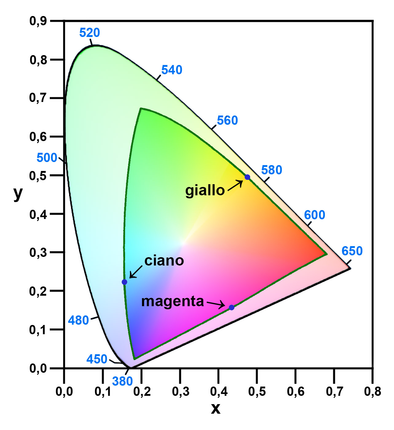 Gamut of typical dyes (yellow, magenta, and cyan) used in transparencies intended for projection.